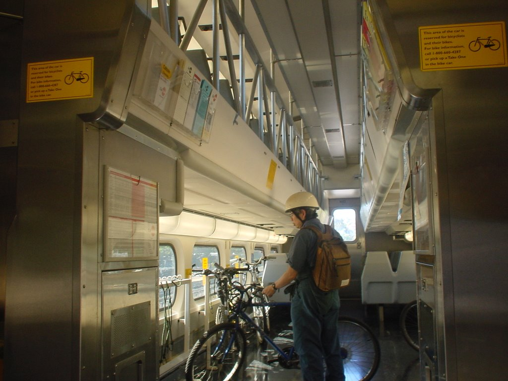 Bicycle storage in a Caltrain gallery car.